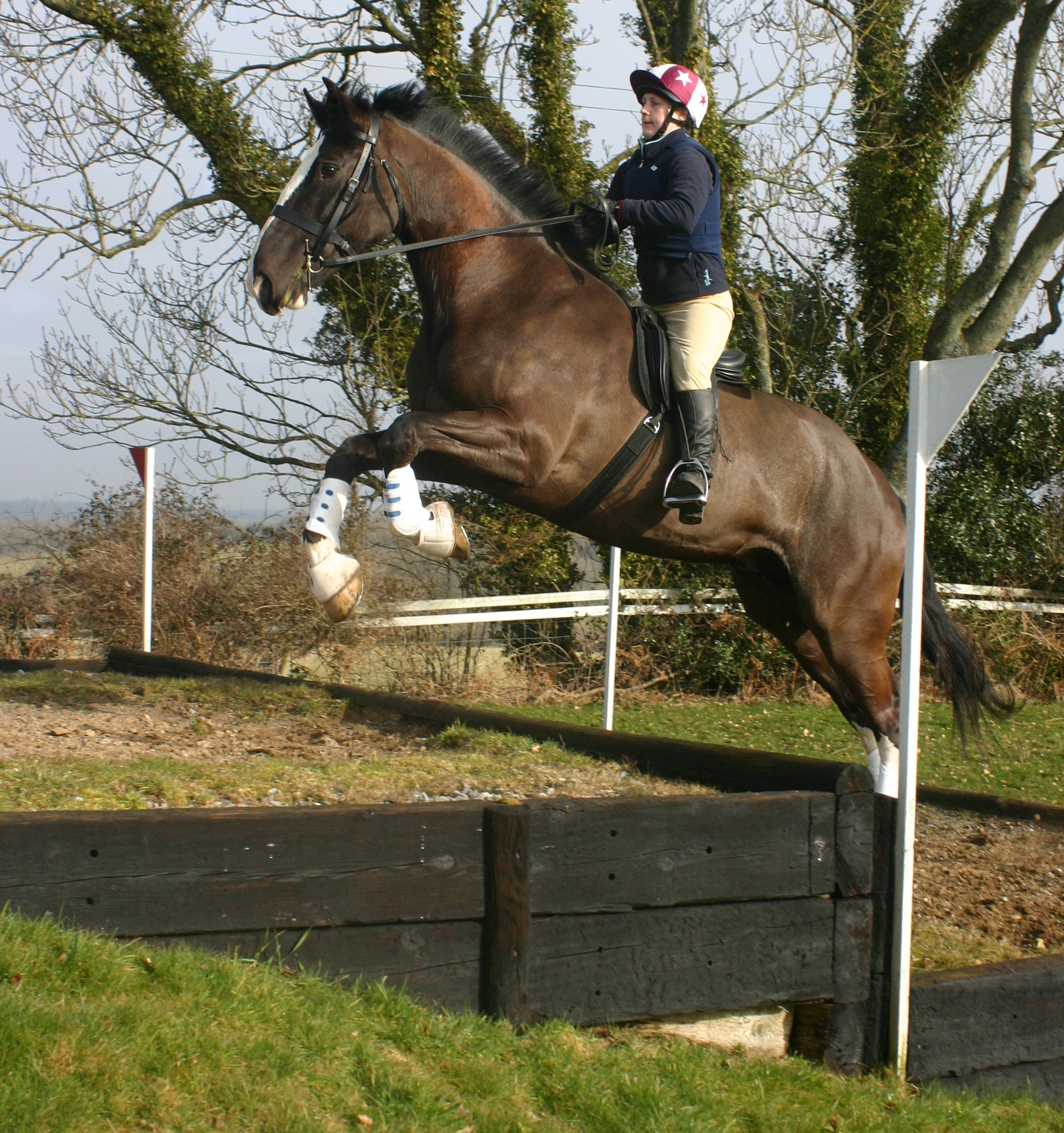 Horse negotiating bank on cross country course